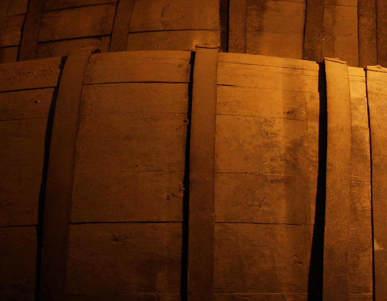 Brown casks